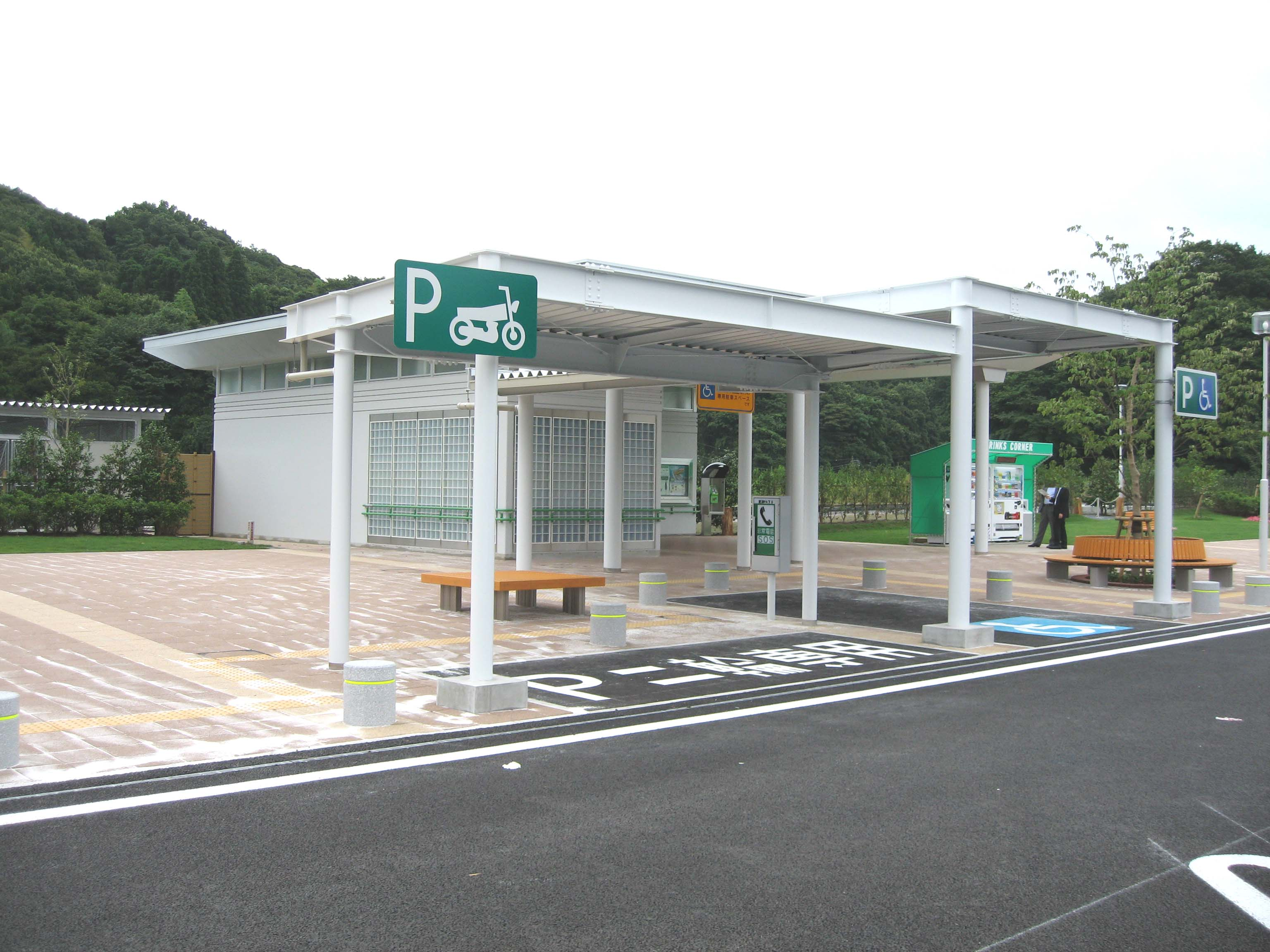 Kimitsu PA, Tateyama Expressway(downline), Chiba, Japan